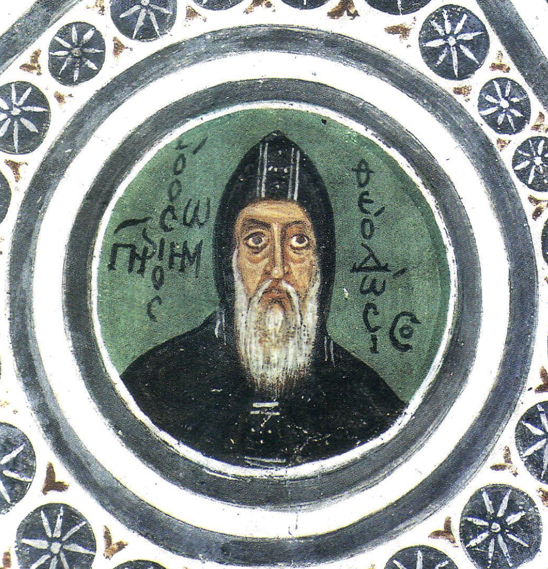 Hosios Loukas Monastery, Boeotia, Greece